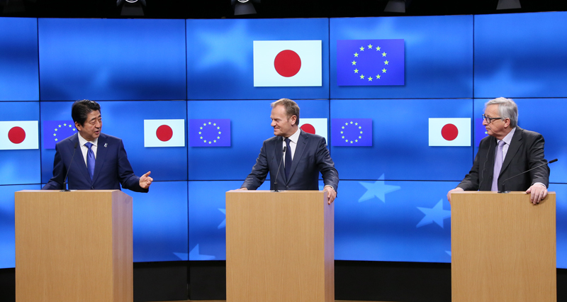 Prime Minister Shinzō Abe, President of the European Council Donald Tusk and President of the European Commission Jean-Claude Juncker at a Japan-EU bilateral press conference.